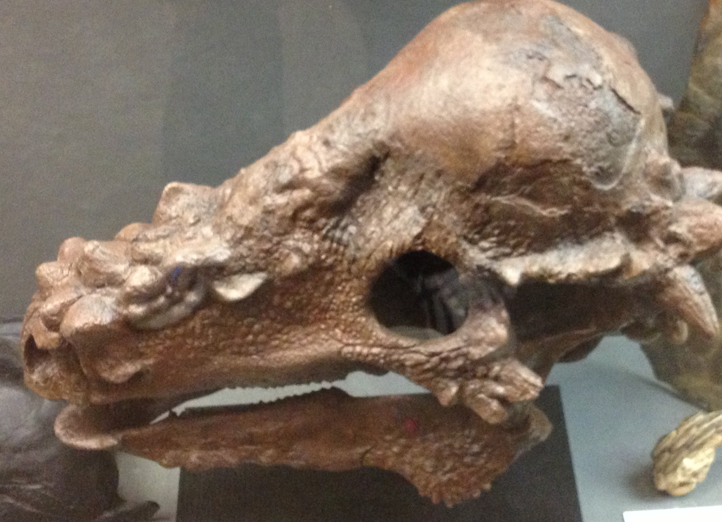 Bones and remains of prehistoric animals Pachycephalosaurus, the dome headed dinosaur. Much debate about if the head was used for raming or not.